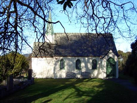 St Barnabas Church, Warrington, New Zealand viewed from the north in the churchyard and cemetary where Samuel Tarratt Nevill is buried. Photo by Louise Booth who has released it into the public domain and authorised Nankai to upload it here.